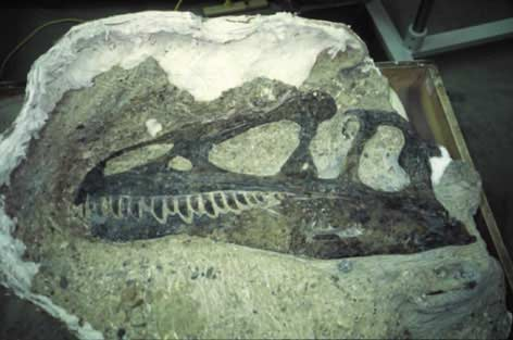 Allosaurus — fossilized skull More data: DINO 11541 Allosaurus jimmadseni Kimmeridgian age of the late Jurassic period Salt Wash Member of Morrison Formation found in Dinosaur National Monument